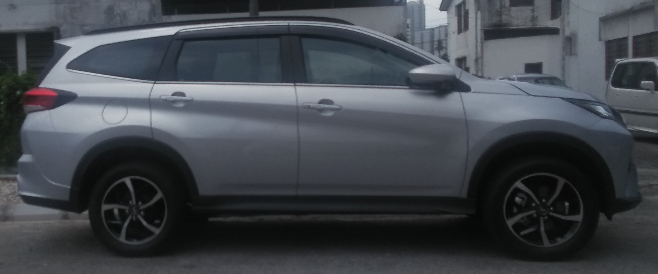 The side of a Perodua Aruz.